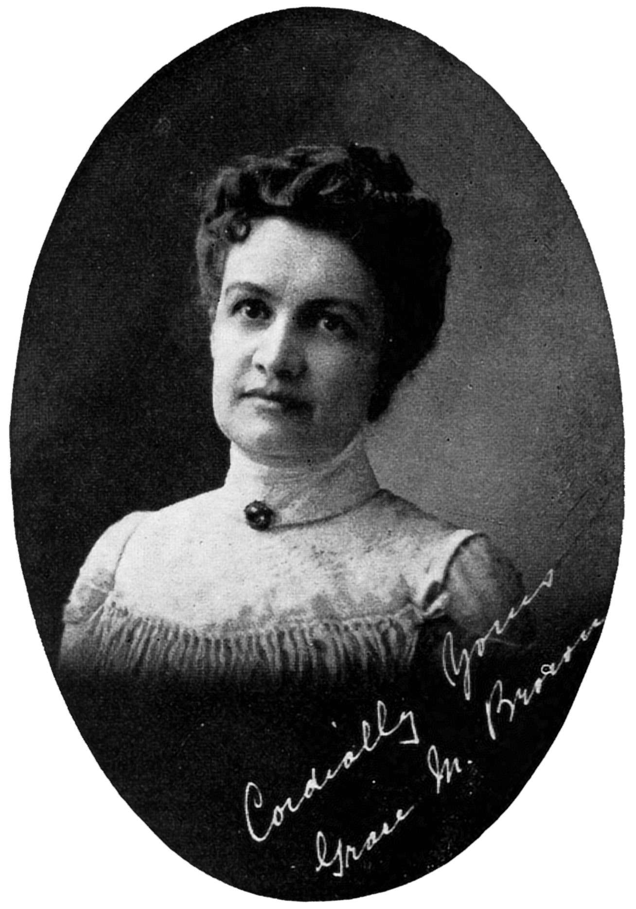 Picture of Grace Mann Brown from her book "Studies in Spiritual Harmony by Ione." in 1901 Published by "The Reed Publishing Company" Written on the picture : "Cordially yours Grace M. Brown"